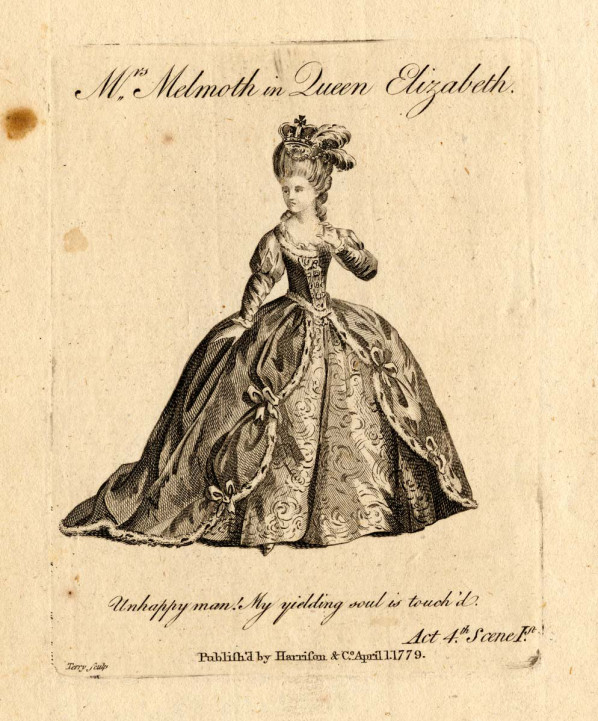 Actress Mrs Charlotte Melmoth as Queen Elizabeth in "The Earl of Essex", a tragedy by Henry Jones